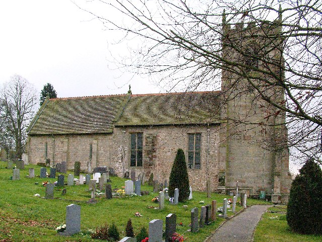 St Andrews Church at Cubley Technically the church is at Great Cubley but Great Cubley and Little Cubley tend to be know collectively as Cubley. Also, the church lies roughly equidistant from the two. The photograph shows the northern side of the building.